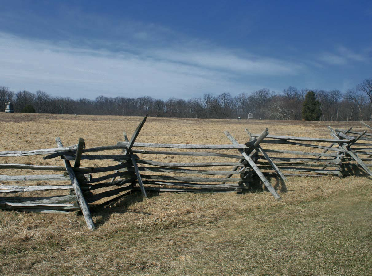 Fence at Wheatfield road, the view to Wheatfield and Winslow battery.